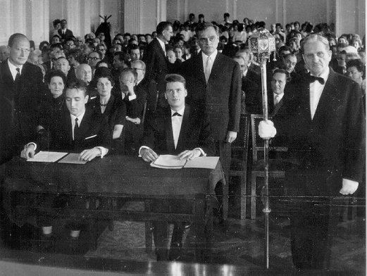 Előd Halász and Zoltán Kanyó